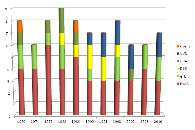 Graph of seat distribution in Amsterdam college.